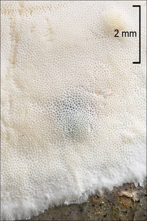 Skeletocutis nivea Location: Bovec basin, East Julian Alps, Posočje, Slovenia For more information about this, see the observation page at Mushroom Observer.